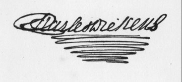 Charles Dickens's signature